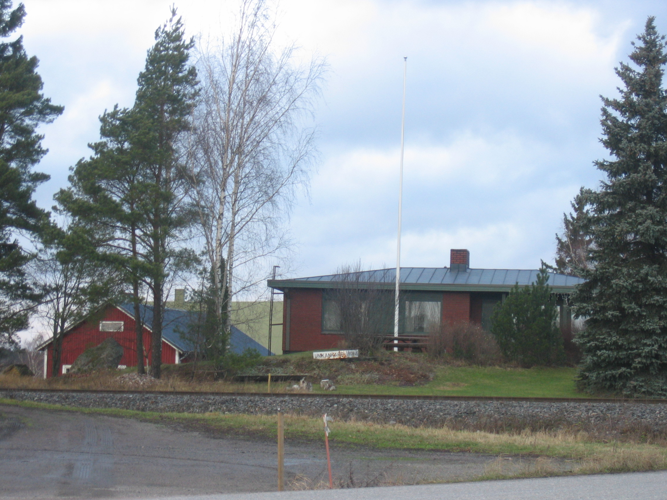 Site of former Unikankare railway stop in Mietoinen, Finland